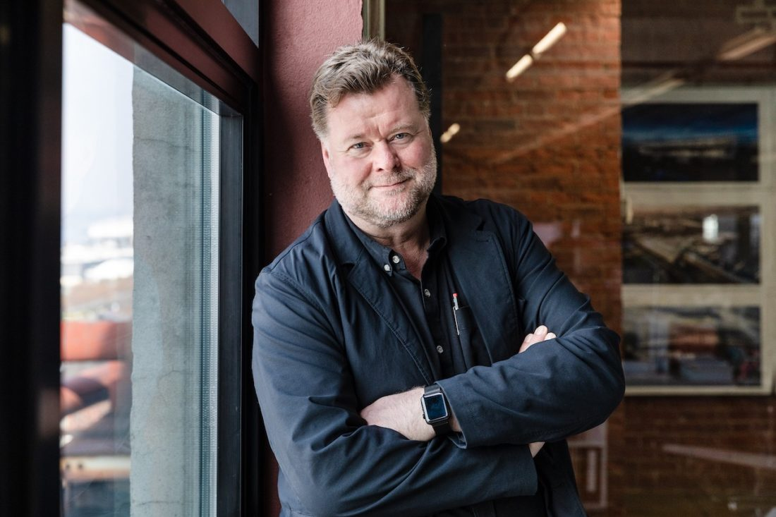 Photo of Andrew Whalley near a window - headshot